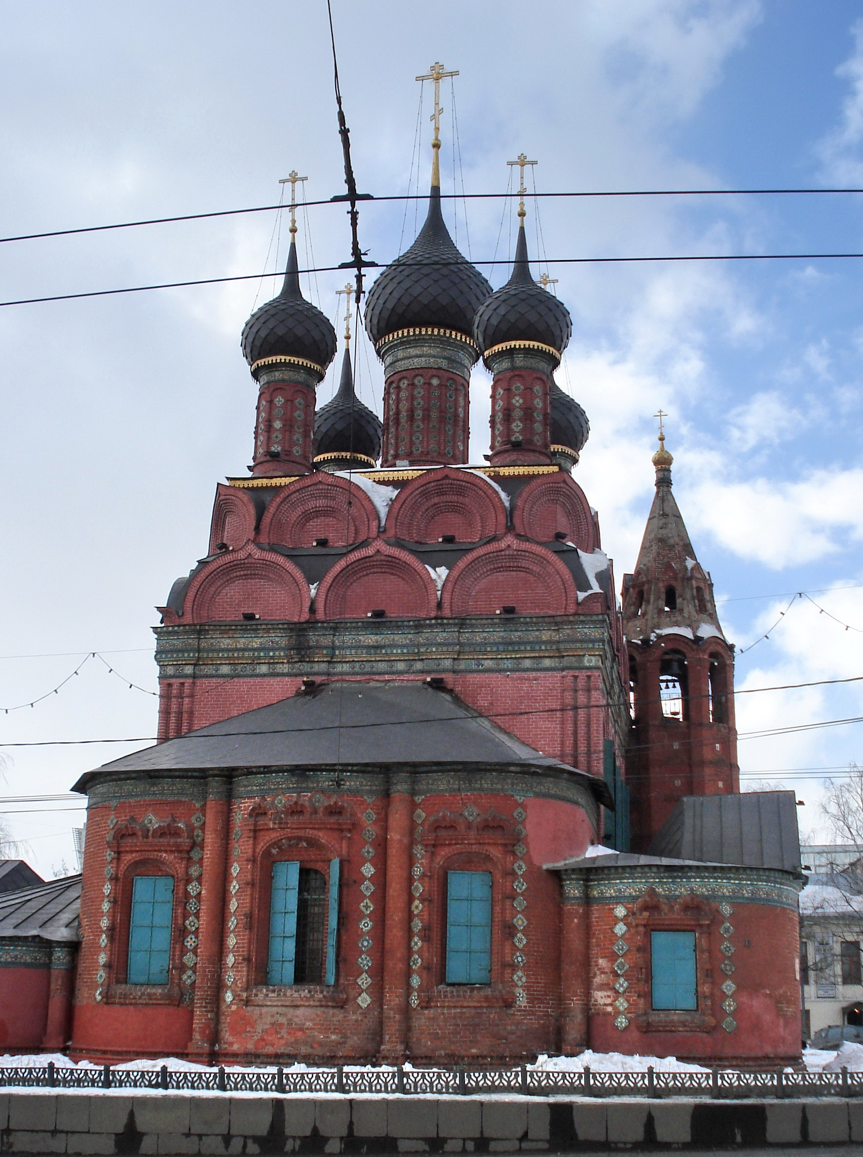 Church of the Epiphany (Yaroslavl)